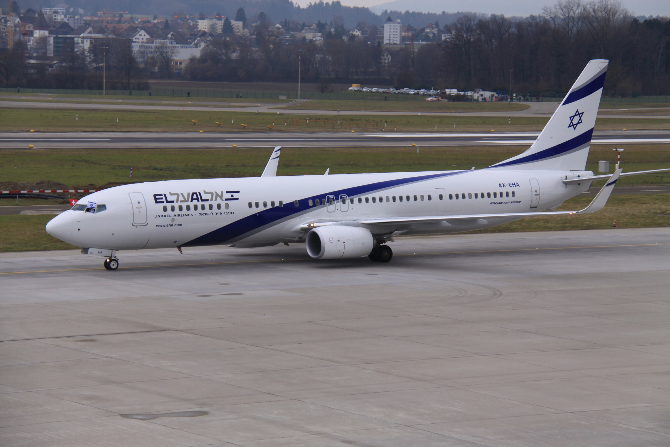 At Zurich Kloten International Airport